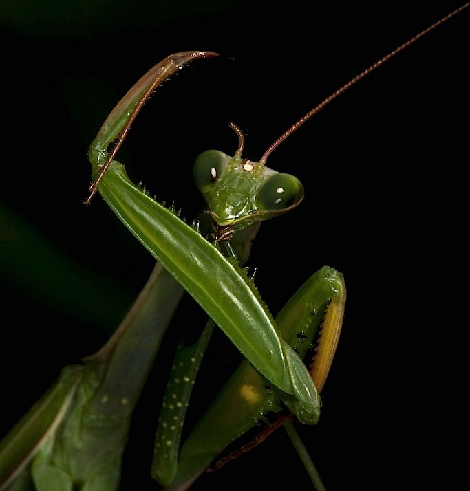 Praying Mantis Male few hours before Sexual Act cleaning himself